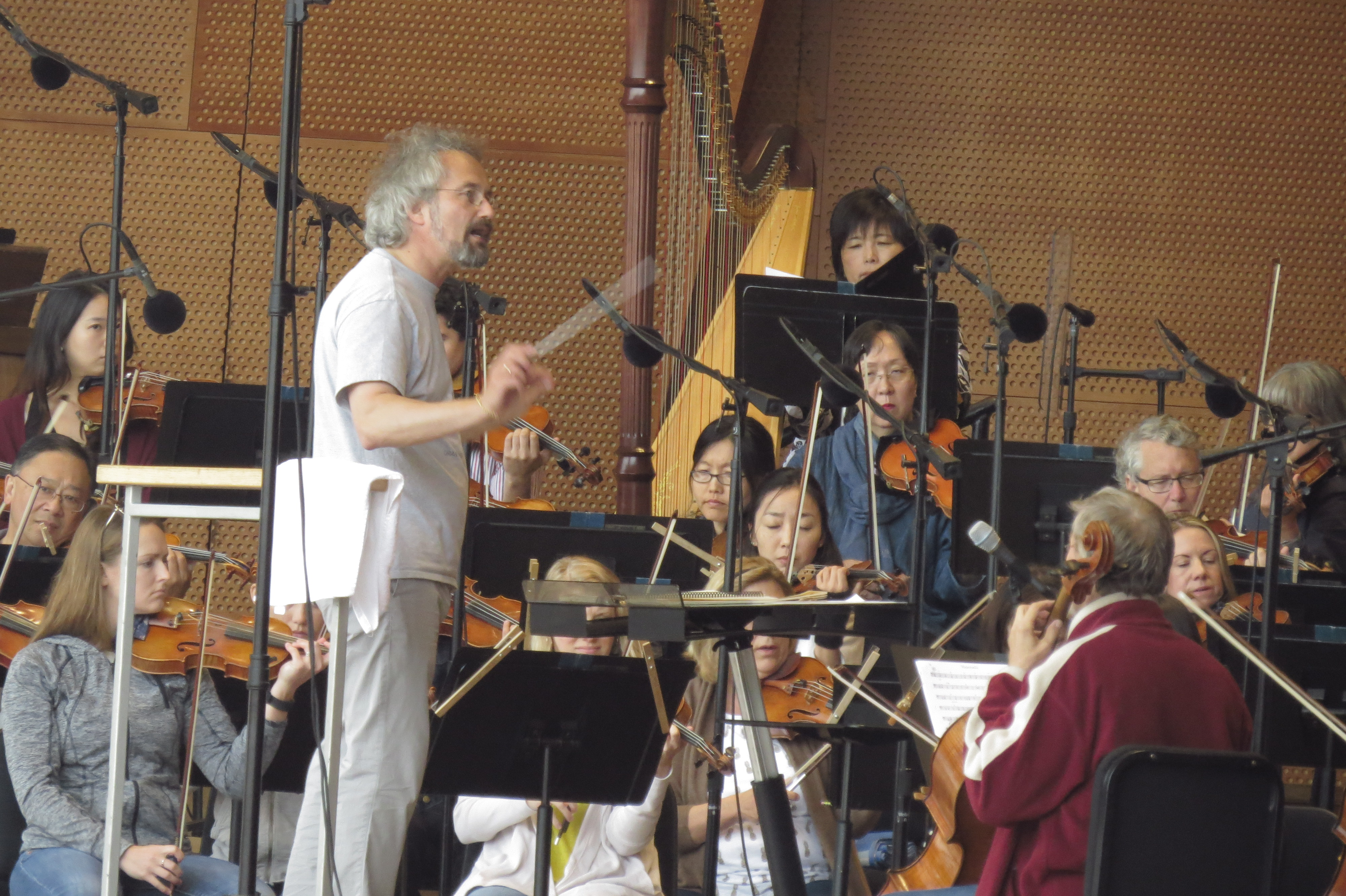 Carlos Kalmar, musical director of the Oregon Symphony, rehearsing with Chicago's summer orchestra.